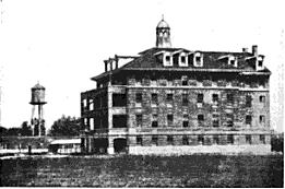 This is a picture of Sacred Heart Academy and Convent in Lisle, Illinois. The picture was created in 1913 and published in 1914. The building's construction, which began in 1912, is one-fourth complete.